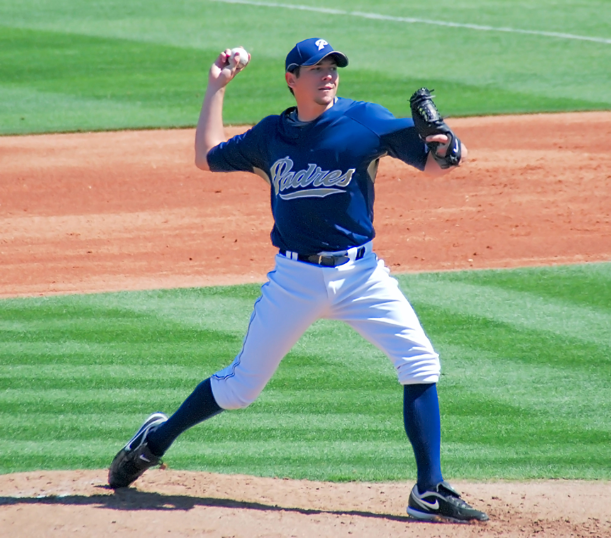 Josh Geer pitching for the San Diego Padres during spring training in 2009.